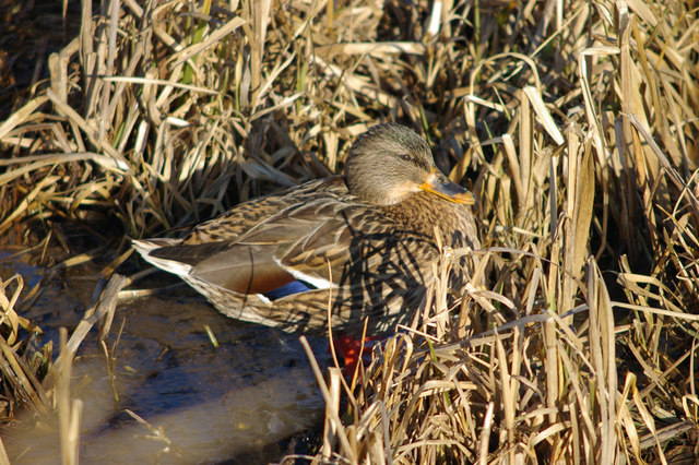 Camouflage. Duck blending into the reeds at Waters' Edge Park.